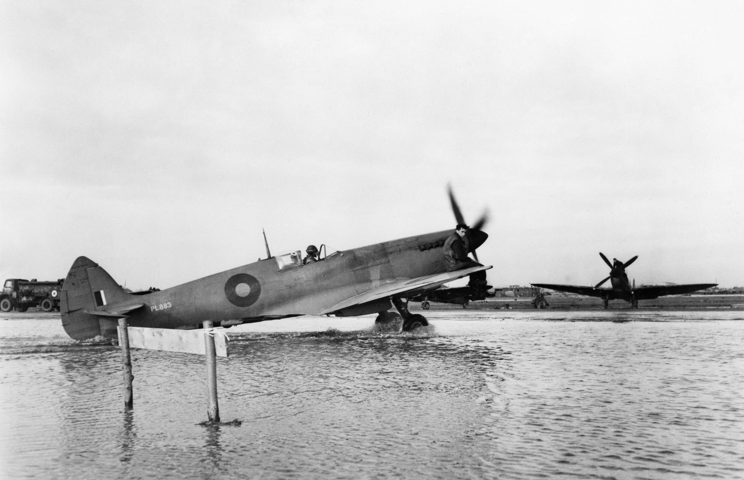 Royal Air Force- 2nd Tactical Air Force, 1943-1945. Supermarine Spitfire PR Mark XI, PL883, of No. 400 Squadron RCAF taxying through a flooded area at B78/Eindhoven, Holland.